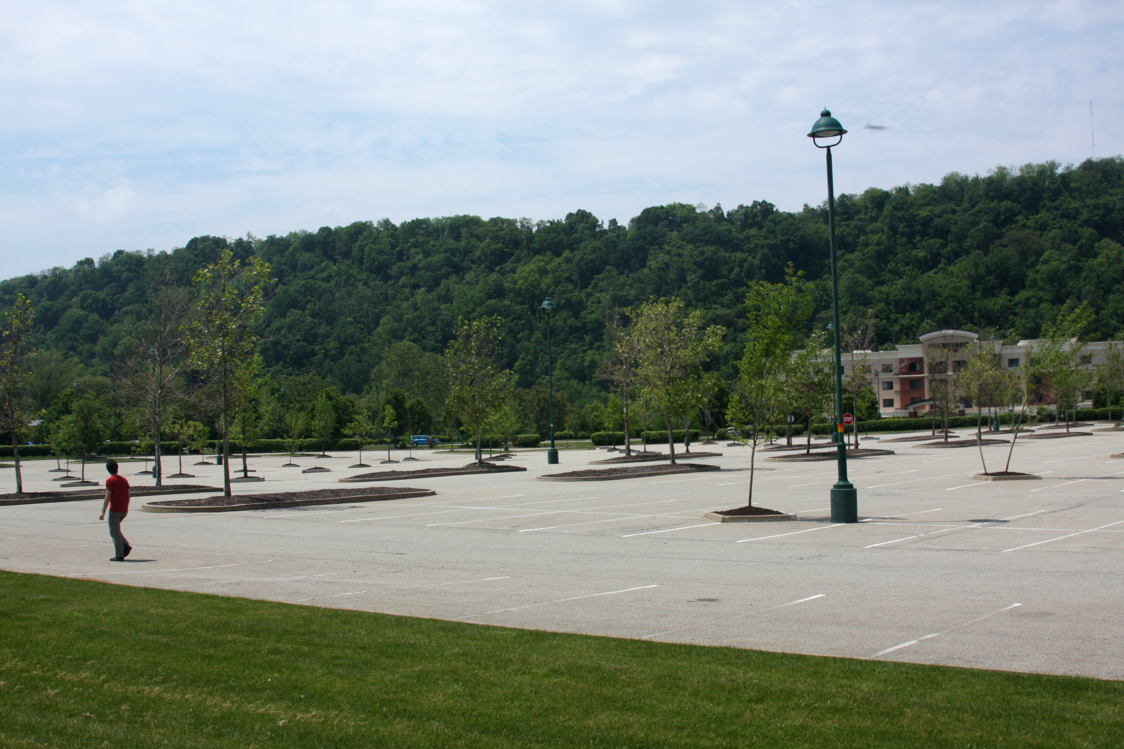 A view of the parking lot of The Waterfront in Pittsburgh, PA. This was the site of the 1892 Homestead Strike